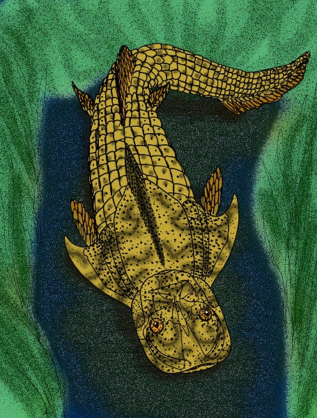 Reconstruction of the wuttagoonaspid arthrodire placoderm Yiminaspis shenme, from the Late Emsian of China.